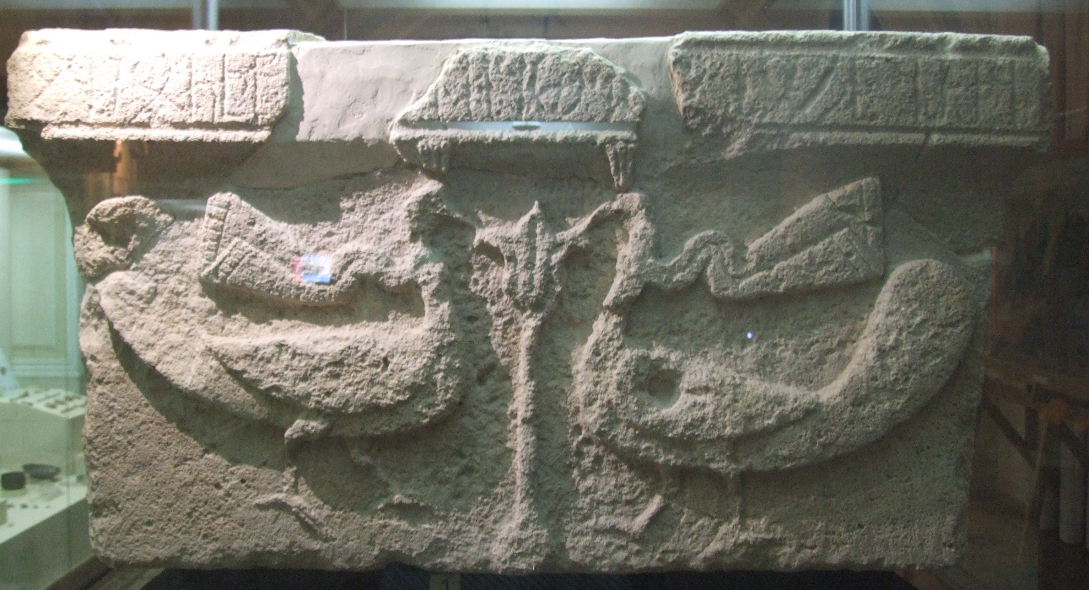 A column capital of VII c. Christian church with Caucasian Albainan letters found during excavations in Mingechaur, Azerbaijan